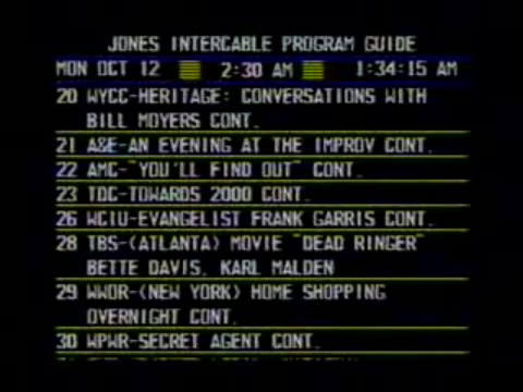 Screenshot of the Electronic Program Guide to illustrate the channel